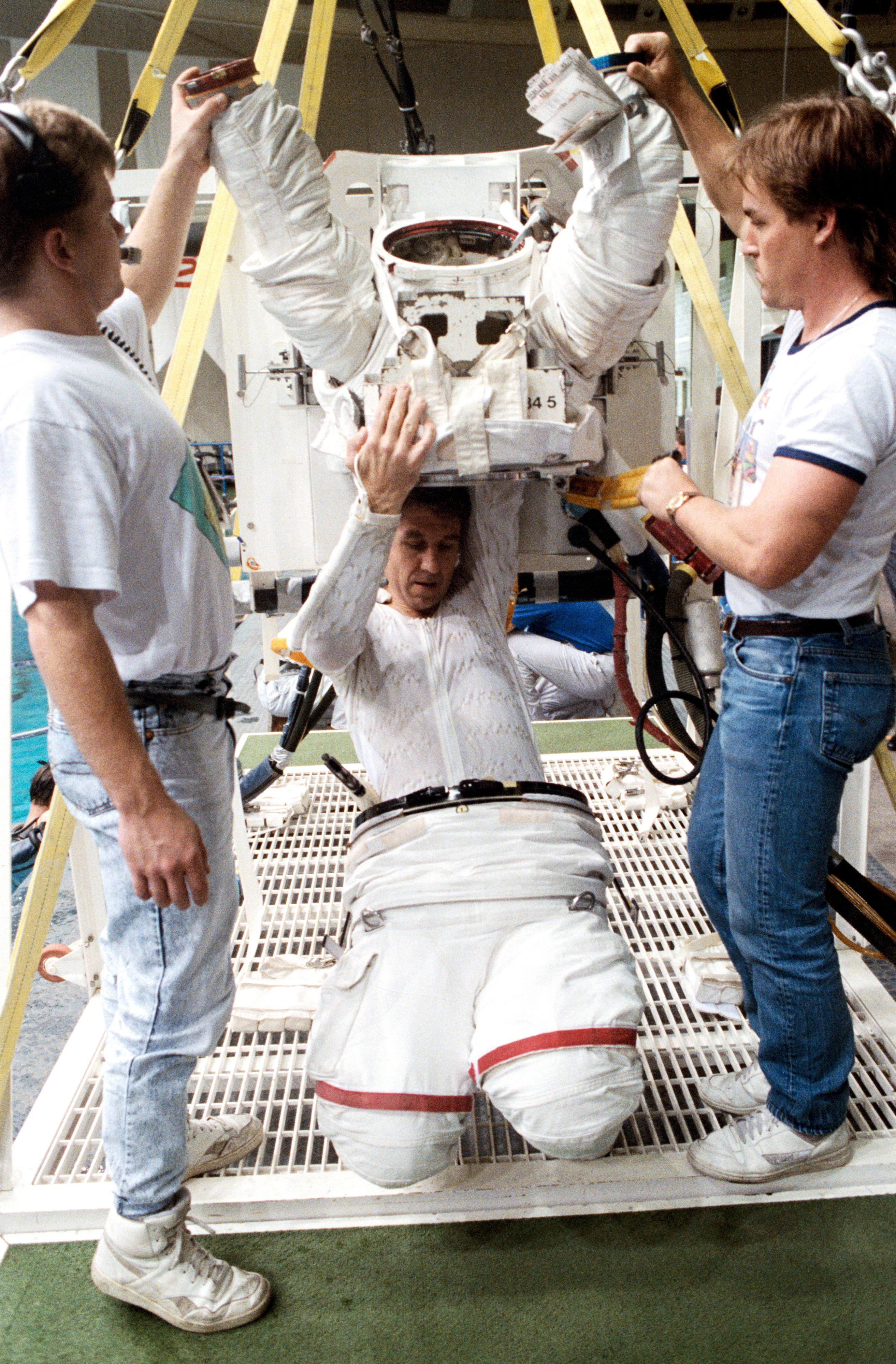 STS-38 Mission Specialist Robert C. Springer dons extravehicular mobility unit (EMU) upper torso with technicians' assistance in JSC's Weightless Environment Training Facility (WETF) Bldg 29. Springer is preparing for an underwater extravehicular activity (EVA) simulation in the neutral buoyancy tank. Springer and his fellow astronauts would launch aboard Atlantis on November 15, 1990. This photo demonstrates the two-part suit consisting of an upper and lower half that is worn during shuttle EVAs. The entire suit, including parts not pictured here, weighs 275 pounds, so it is necessary to have help while putting it on in Earth's gravity.